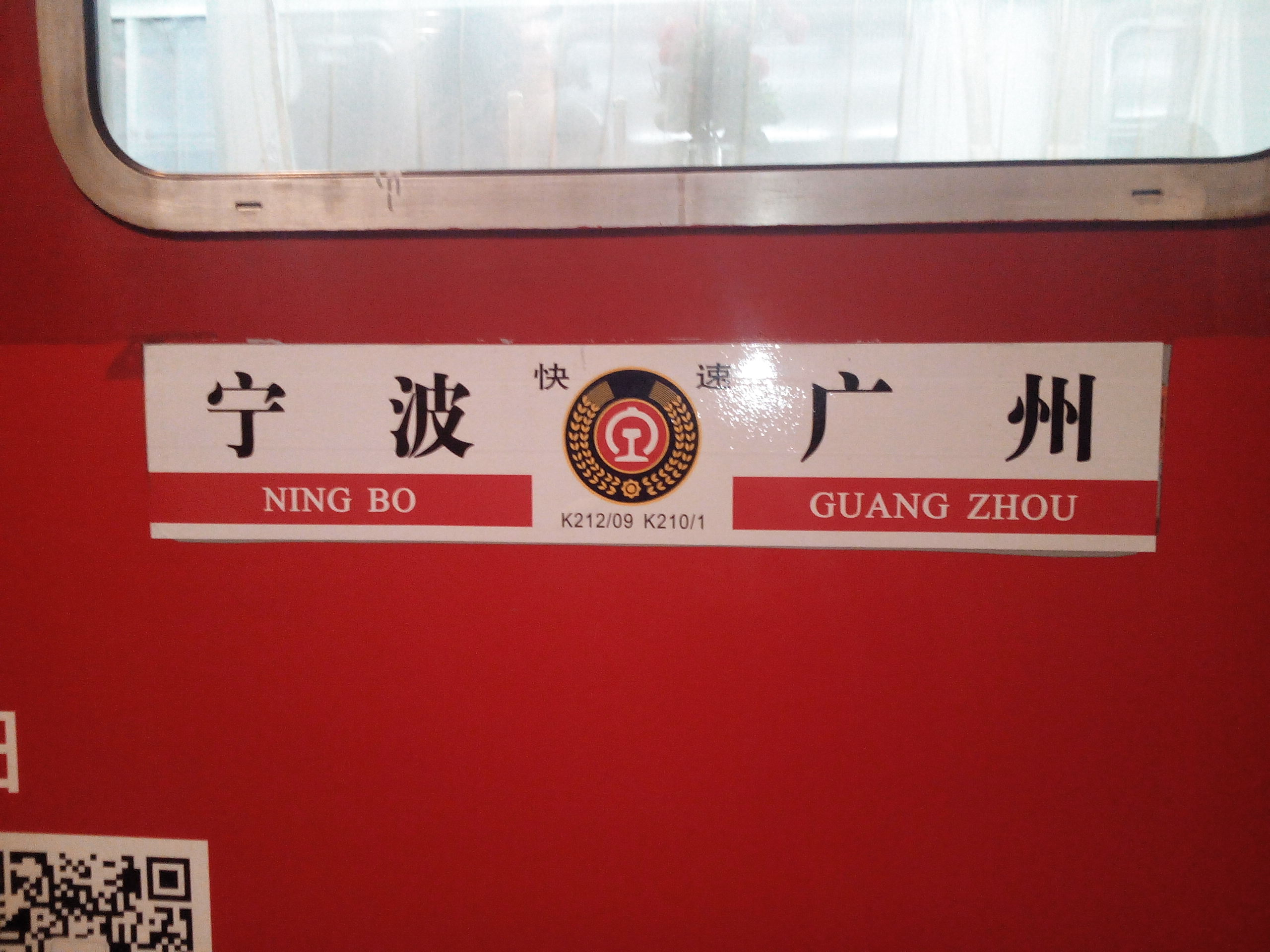 K209-210-211-212 infoboard in 201504